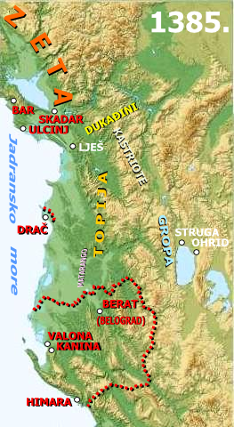 His wife's dowry Komnine Asen, Balsa II 1372nd the gains in the area of today's Albania: Vlora, Berat and Himara, and from Karl Topia wins Drac, 1385th (by G. Škrivanić ).